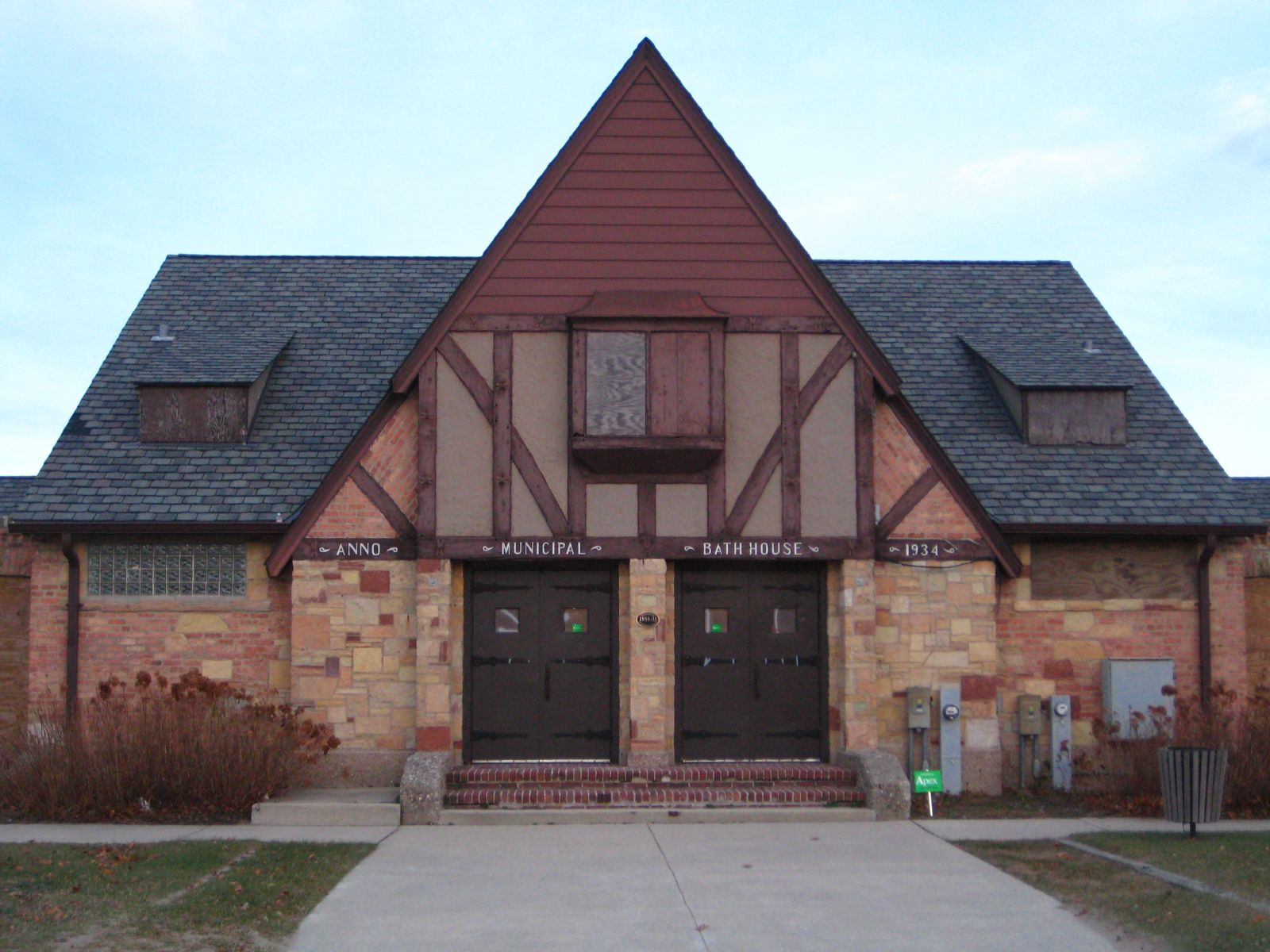 The Simmons Island Beach House, listed on the National Register of Historic Places.